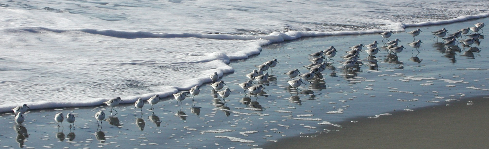 Taken by me November 19, 2005, at the northern mouth of Willapa Bay west of Tokeland, Washington, USA, near Cape Shoalwater and part (now submerged) of the Willapa National Wildlife Refuge; the area is locally known as "Washaway Beach"[1].